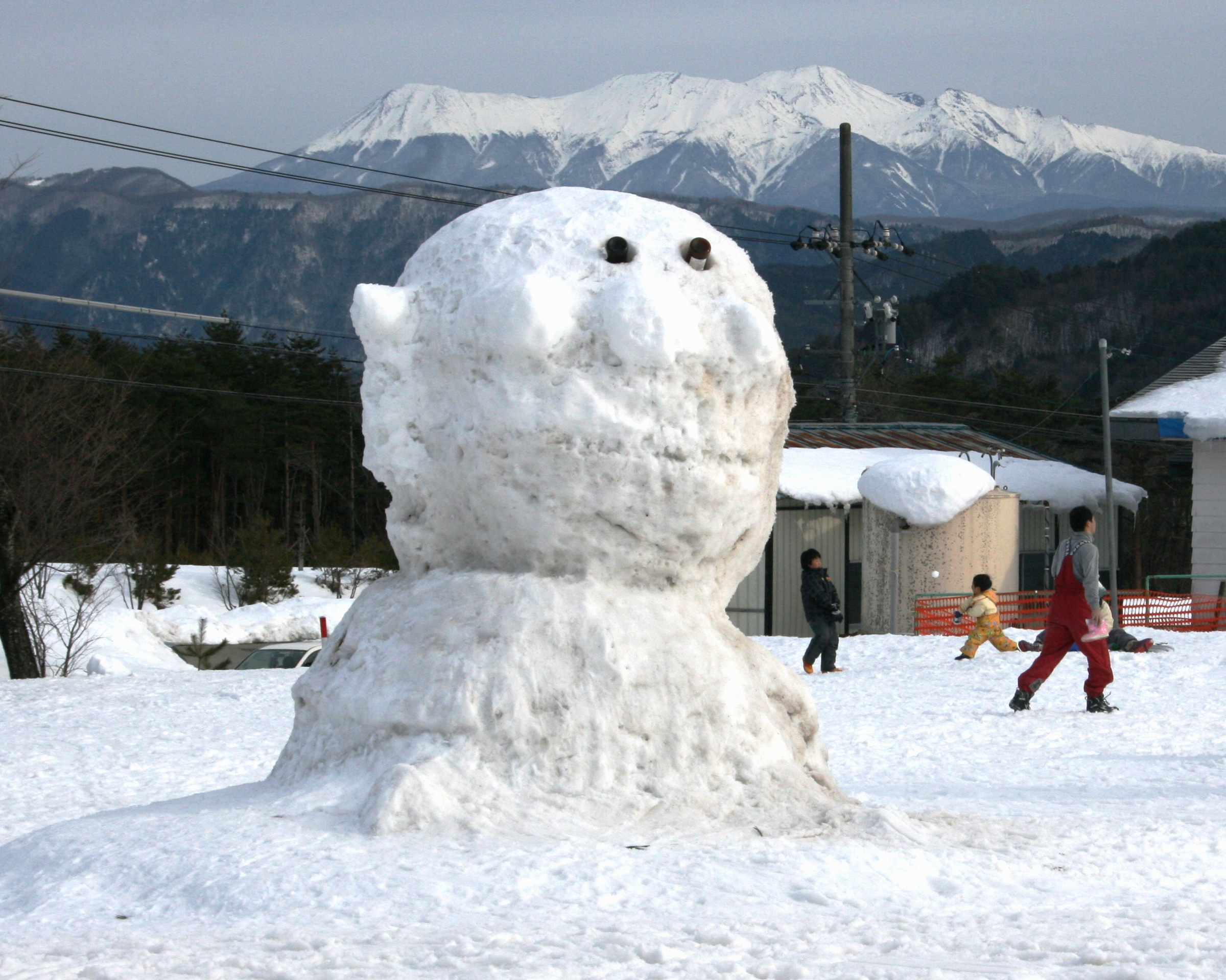 Snowman and Snowball fight in Mount Kurai